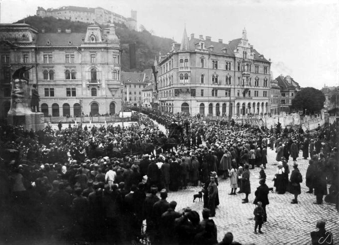 Funeral of the politician Janez Evangelist Krek (1865-1917)